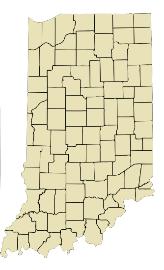 A map of Indiana subdivided by counties. Created by altering an existing file on the commons.